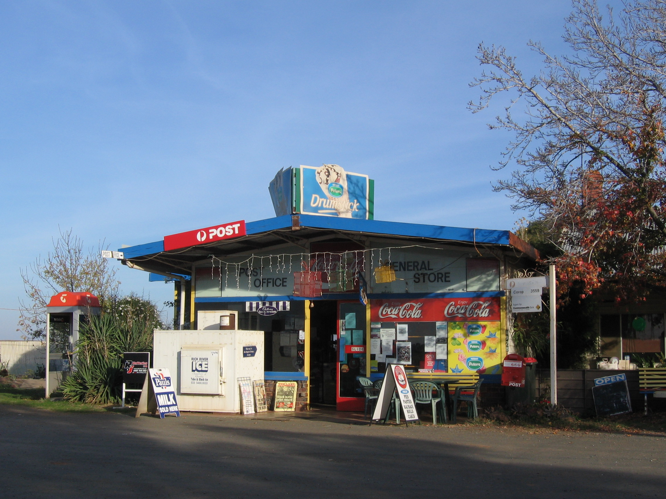 General store and post office agency at Corop, Victoria